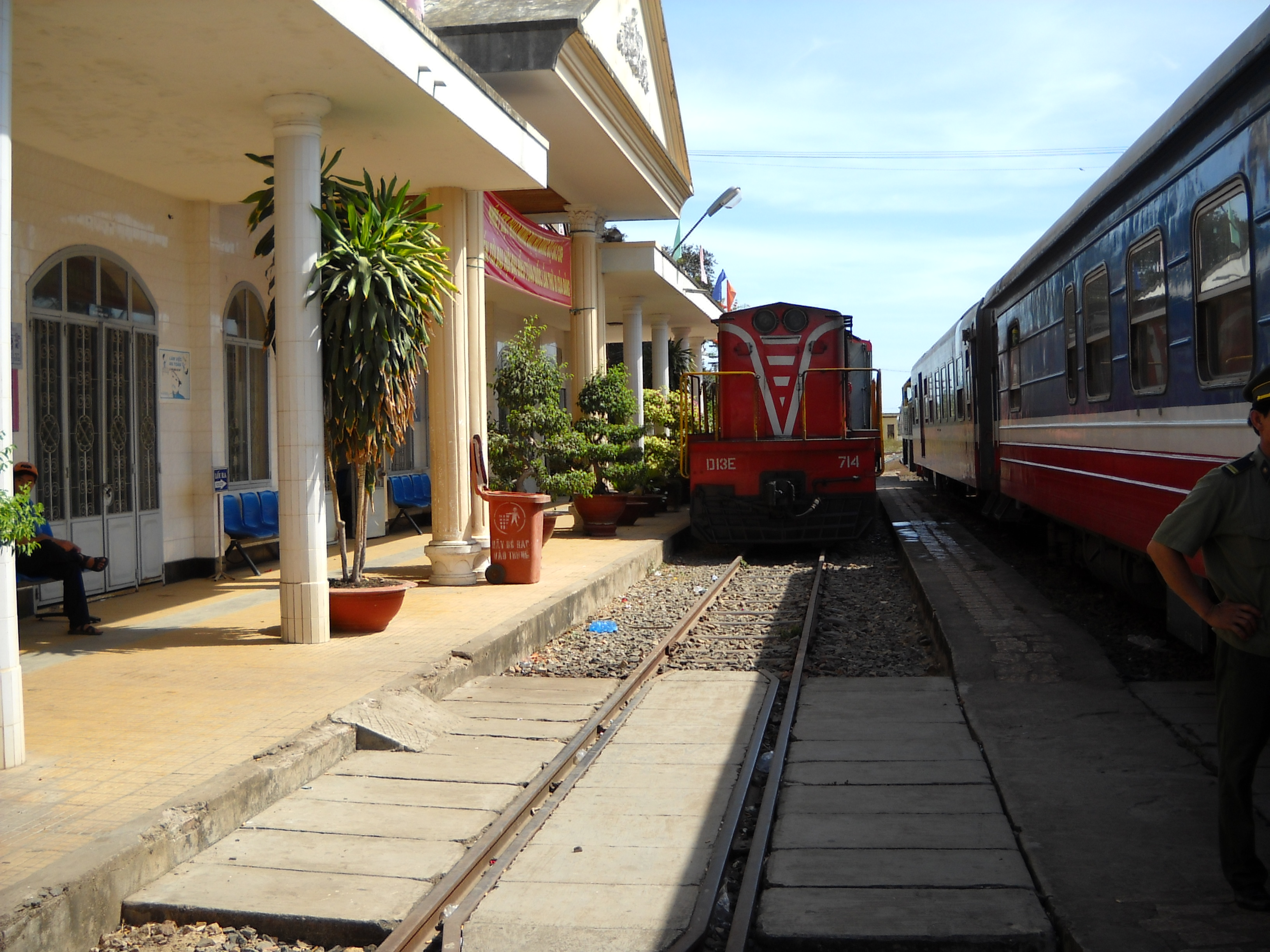 Muong Man Railway Station, Binh Thuan Province.